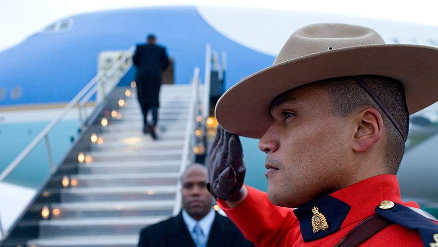 President Barack Obama boards Air Force One for the flight home from Ottawa, Canada.